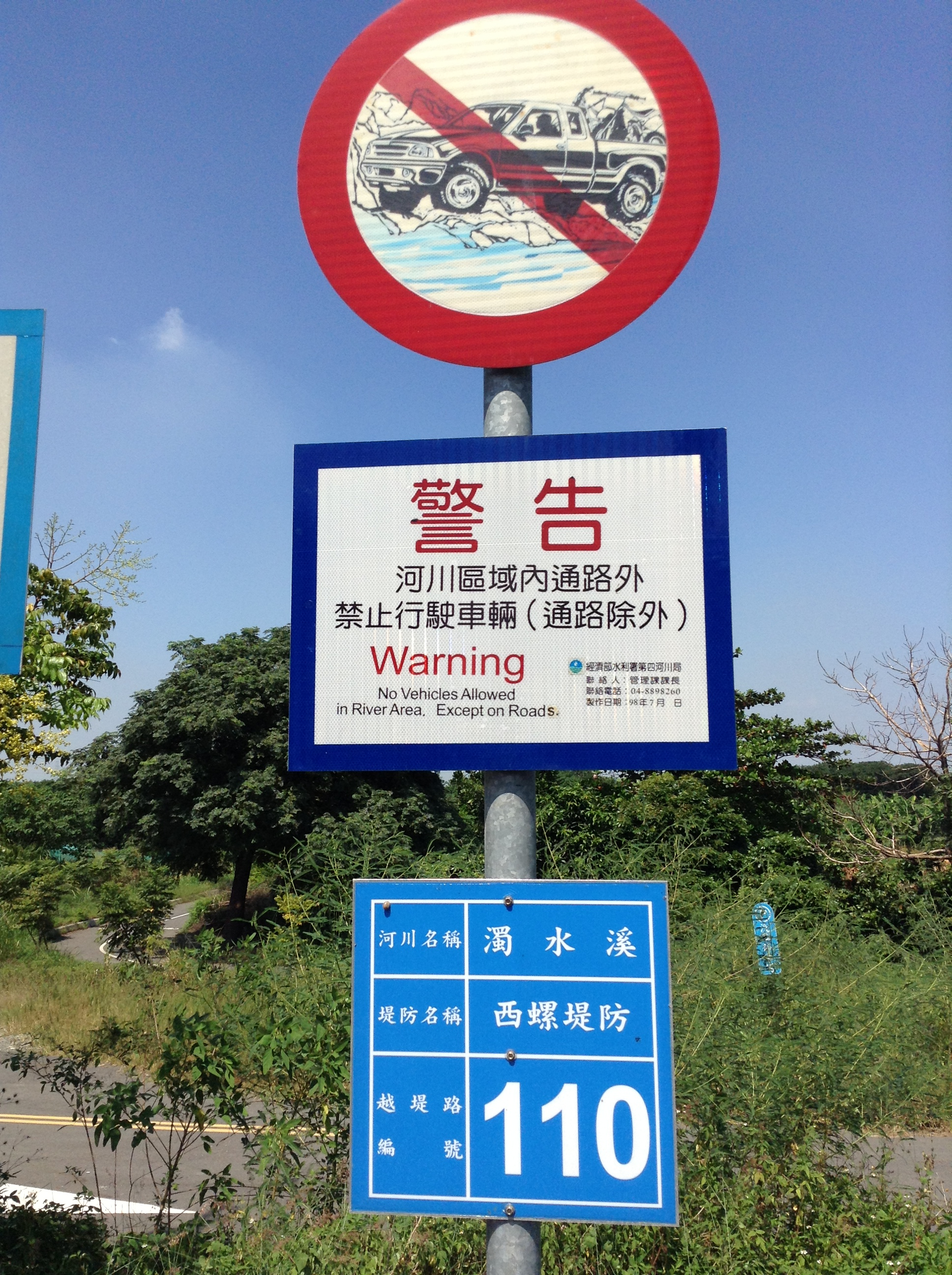 Road sign in Xiluo Township, Yunlin County, Taiwan.